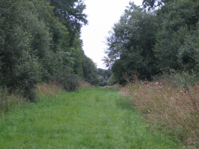 Doddershall Wood. Doddershall Wood is a close-packed mature broadleaved wood of about 43 hectares, predominantly oak, with ash, field maple, aspen and birch. This wood, together with Grendon Wood which adjoins it to the north, is a Site of Special Scientific Interest (SSSI). The woods have long been known as a site of exceptional importance for butterflies of which no less than 35 species, some now very rare, have been recorded. A part of these woods was within the medieval hunting Great Forest of Bernwood, see 408568. The woods are part of the estate of Doddershall House which is 2km to the east, 928901. The village of Grendon Underwood is 1.5km to the west. The name Grendon means 'green hill', and the addition of Underwood is believed to signify its vicinity to the forest of Bernwood. Looking north-west, this ride runs for about 600m and is one of about five rides in the wood. A deer can just be seen in the distance.